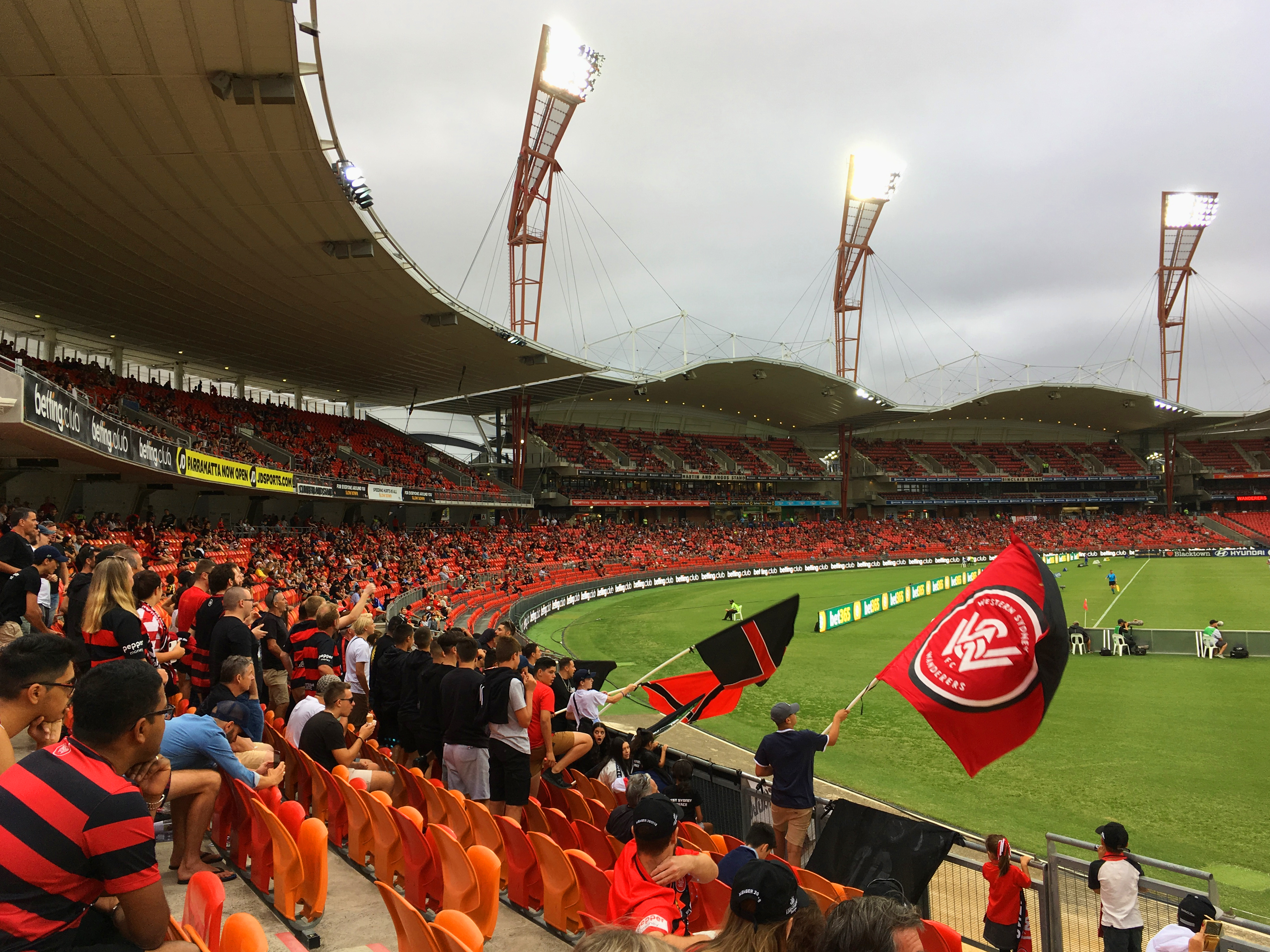 The West Sydney Terrace at the Sydney Showground Stadium, during a Western Sydney Wanderers FC home game against Perth Glory FC during the Round 23 of the 2017–18 A-League season. The Terrace are a group of dedicated Western Sydney Wanderers supporters that regularly attend Wanderers games, contributing to the stadum atmosphere with perormances of chants and call-and-response crowd calls.